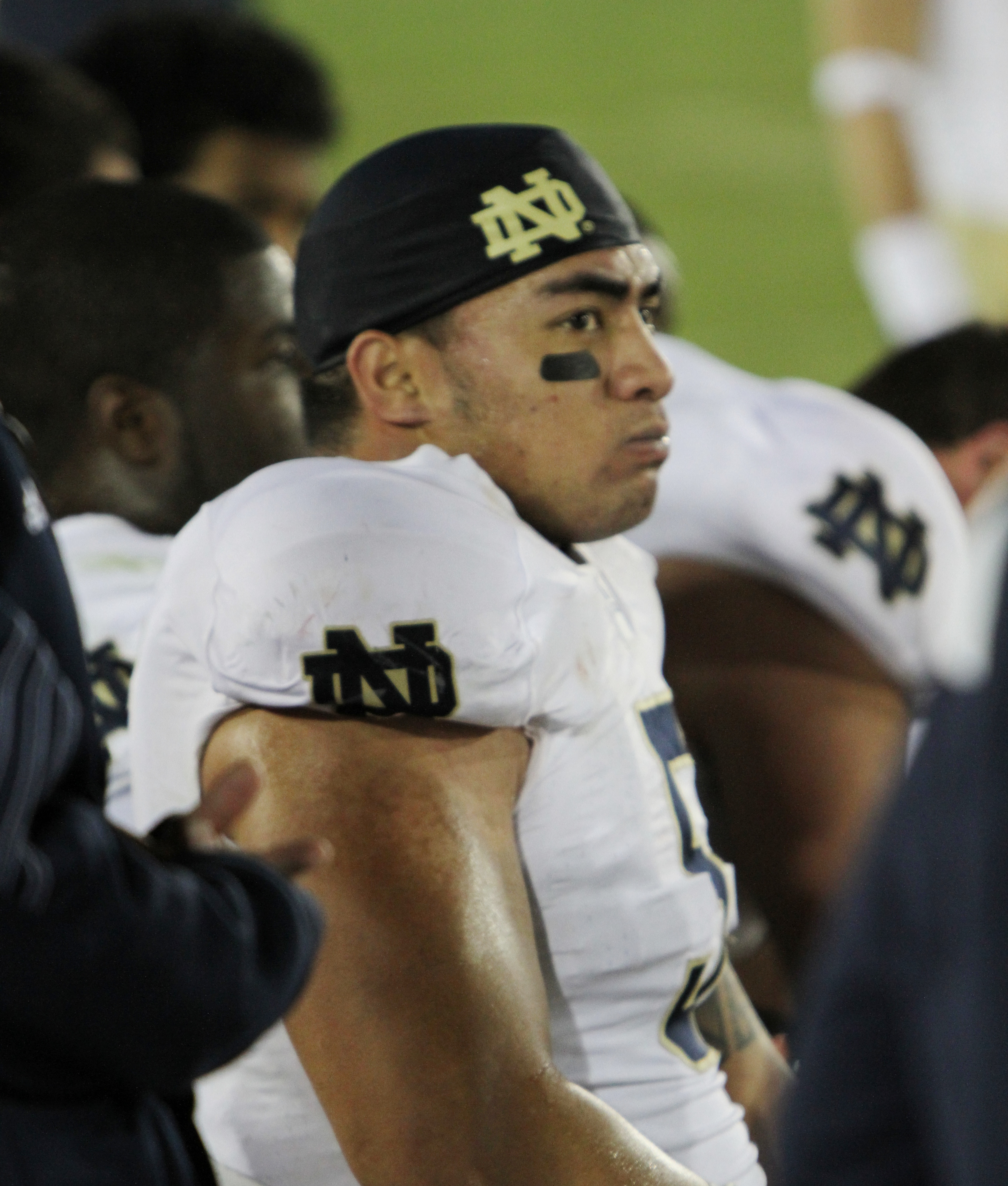 Photo of Notre Dame linebacker Manti Te'o taken in 2010.